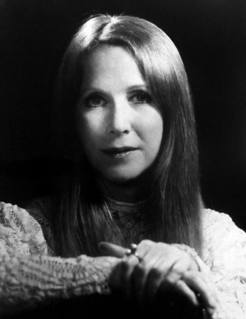 Publicity photo of Julie Harris from the short-lived television program Thicker Than Water.